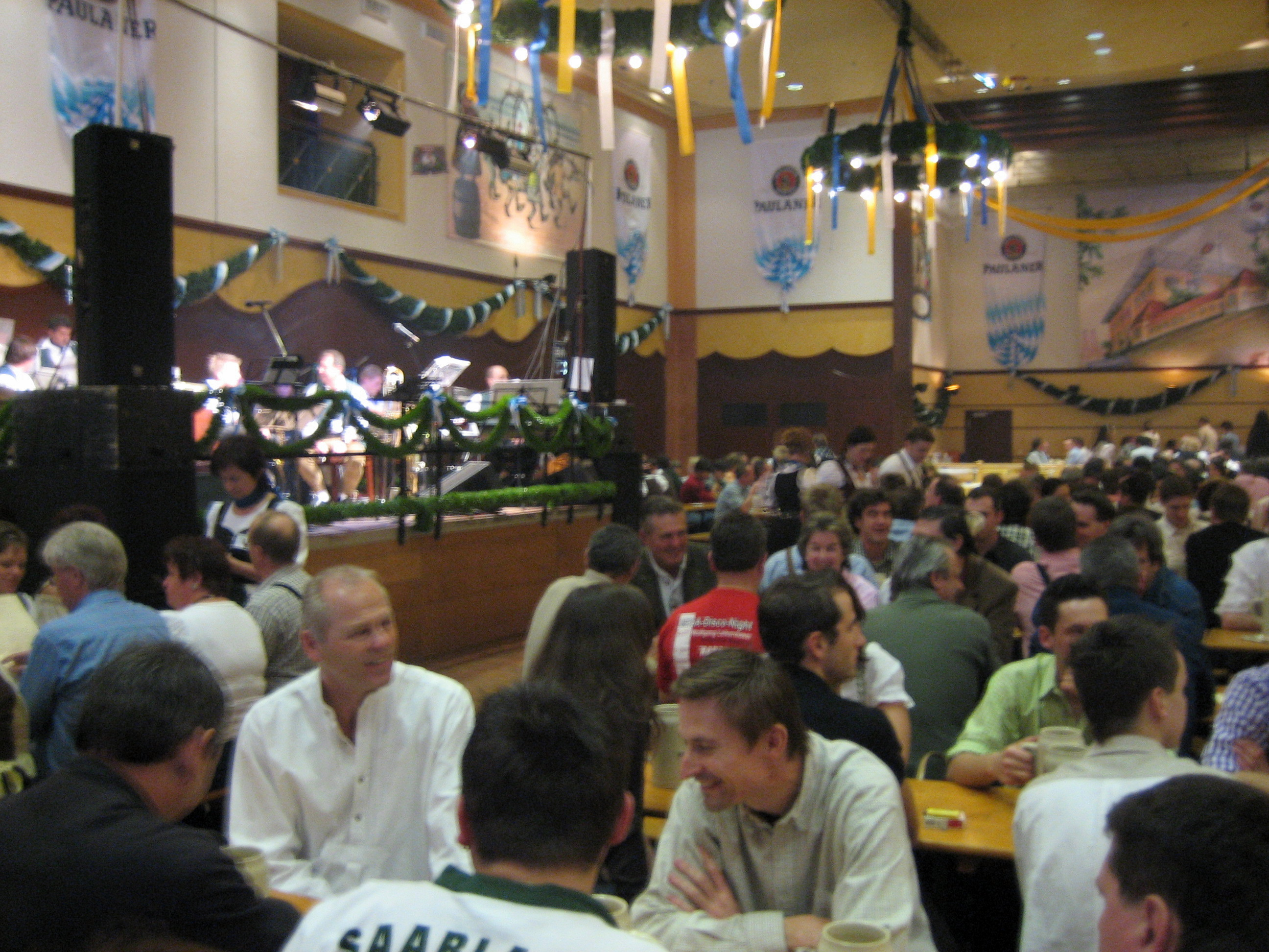 Salvator-Ausschank (bockbeer festival) on the Munich Nockherberg